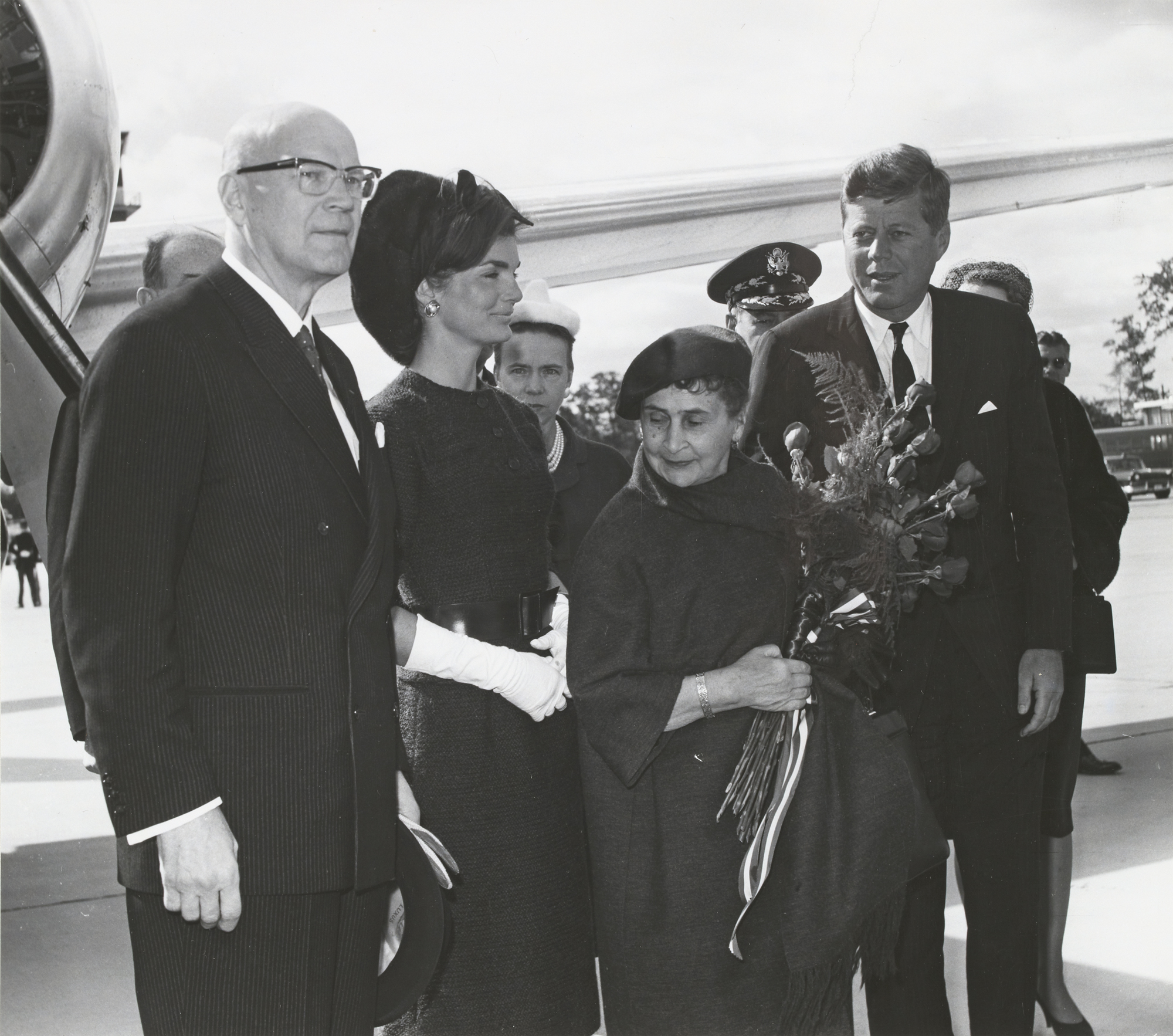 Urho Kekkonen (left), Sylvi Kekkonen (second right) John F. Kennedy and Jacqueline Kennedy in year 1961